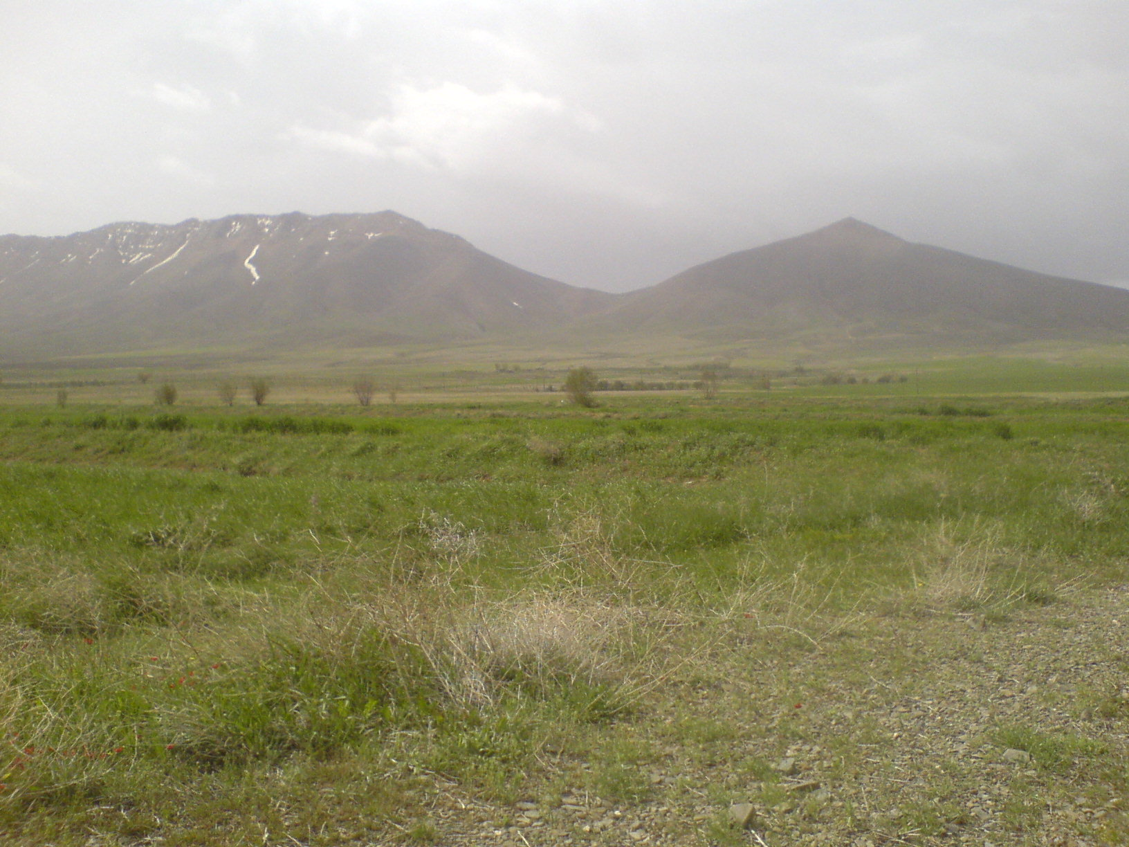 faraj abad فرج آباد روستایی زیبا در استان مرکزی شهرستان خمین